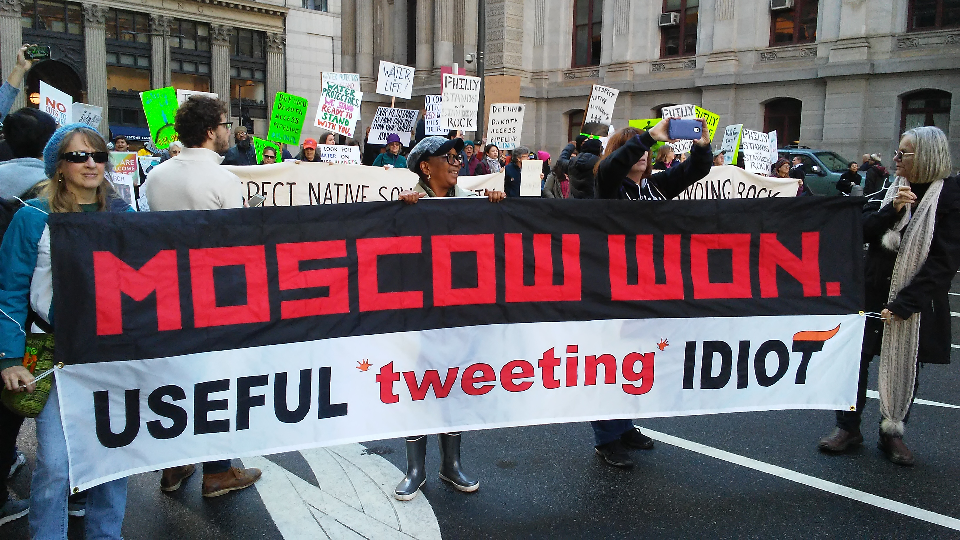 On Thursday, January 26, President Trump and the Republicans staged a retreat in Philadelphia. Plenty of protesters - myself included - greeted Mr. Trump. I had a lot of fun there and here are the pictures.